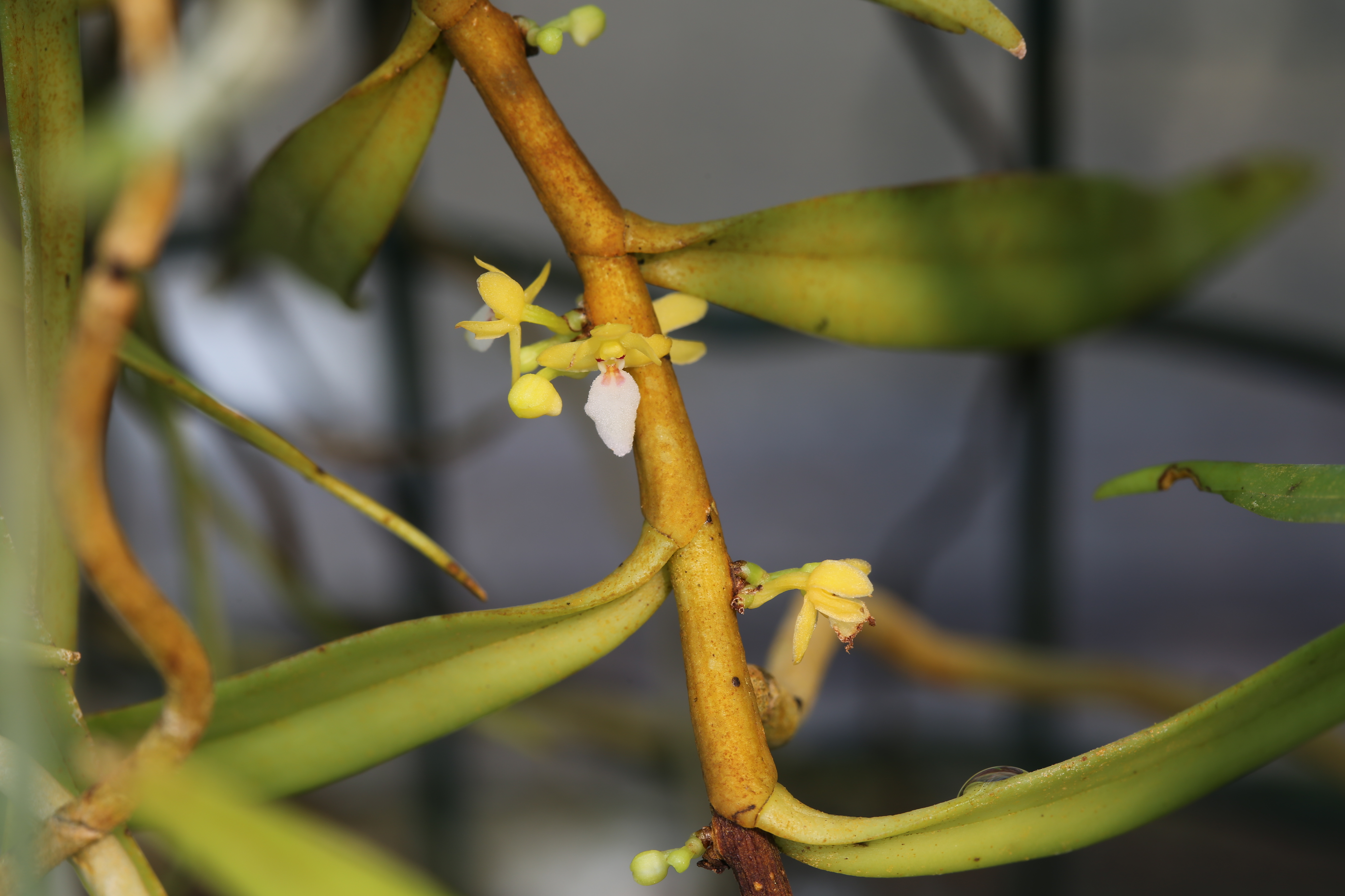 Trichoglottis misera at Gothenburg Botanical Garden in 2015. Plant id: 1983-V0308 p Z -- Köpenhamn